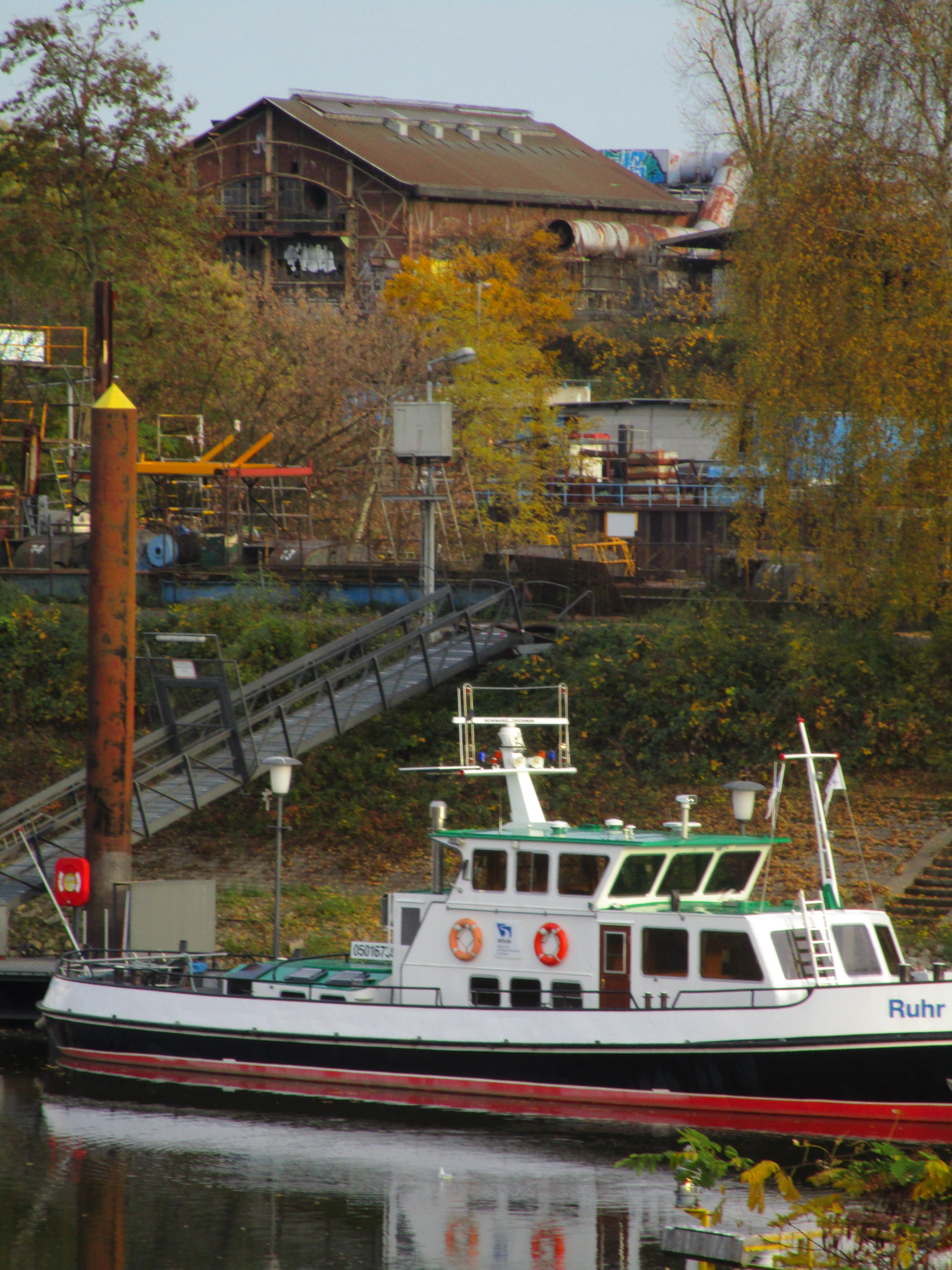 Gasmotorenfabrik Deutz, former Moehring exhibition pavillion